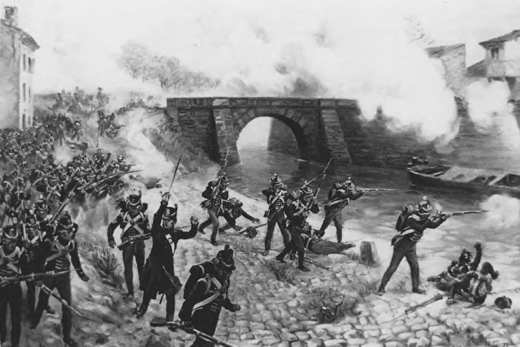 British infantry exchanges fire with the French across the Languedoc Canal during the Battle of Toulouse.